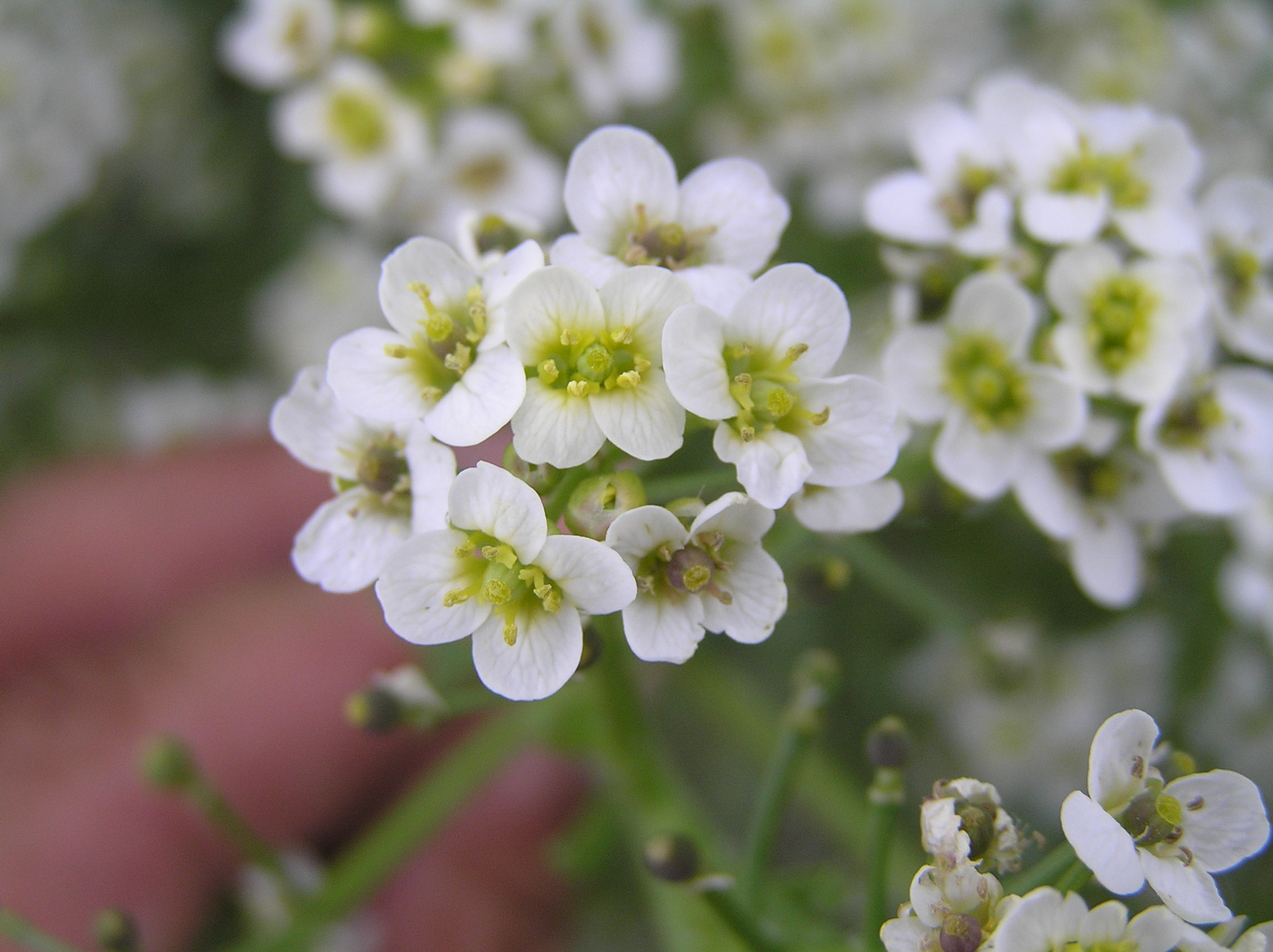 Crambe tataria, Pouzdřany, Southern Moravia, Czech Republic